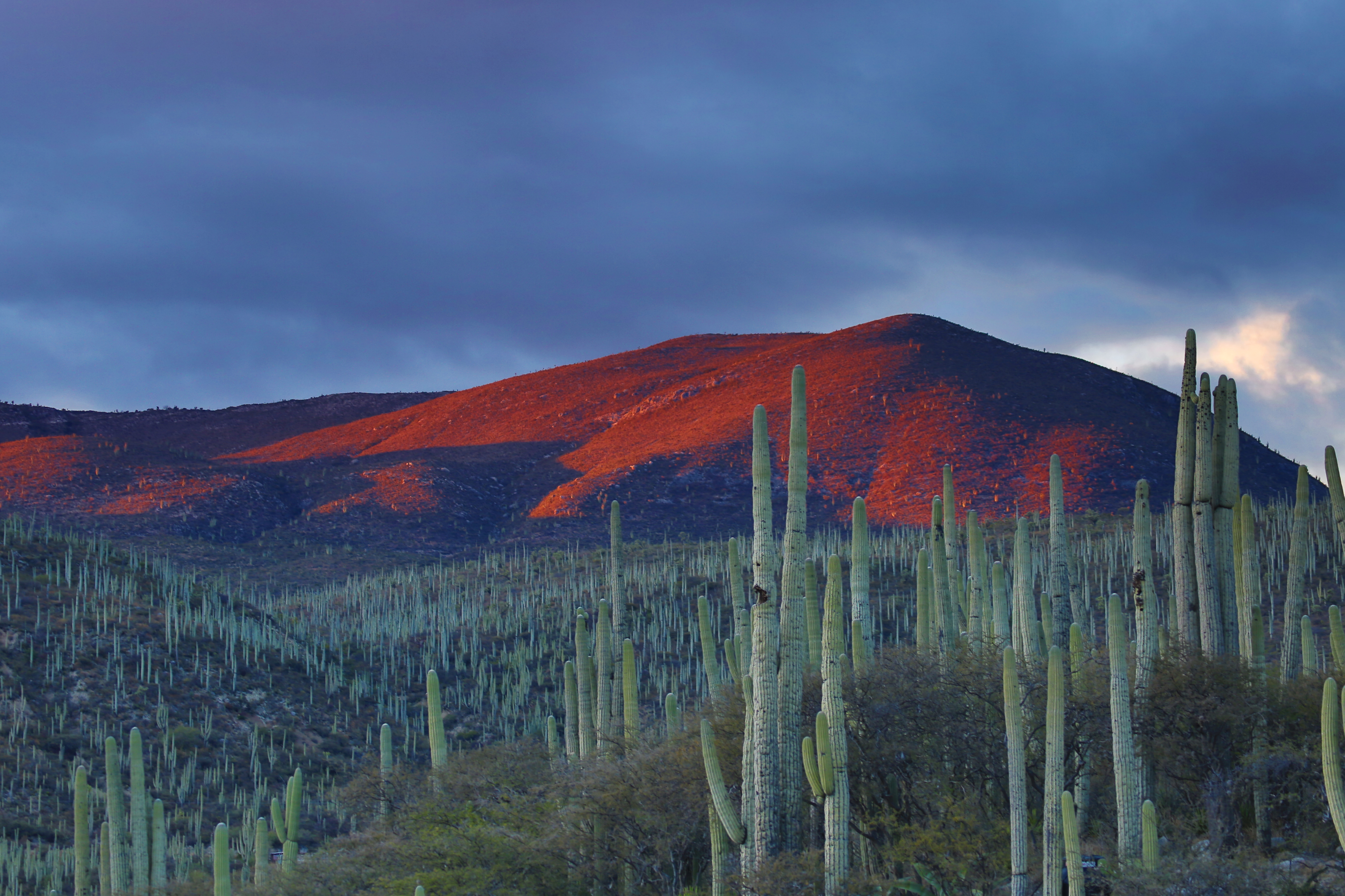 zapotitlan salinas Botanical Garden, Mexico